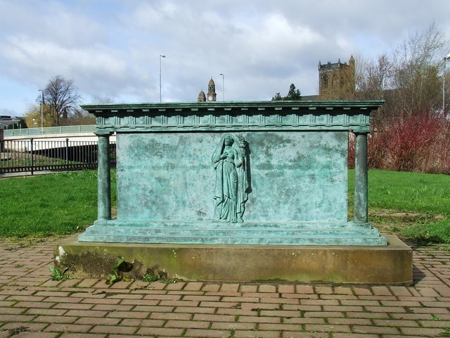 Anchor Mills Memorial The inscription on this side reads "Remember Alexander Wilson 1766-1813 here was his boyhood playground". Paisley Abbey and town hall are visible in the background. See the other side of the memorial here 373242. See the Alexander Wilson statue at Paisley Abbey here 372917